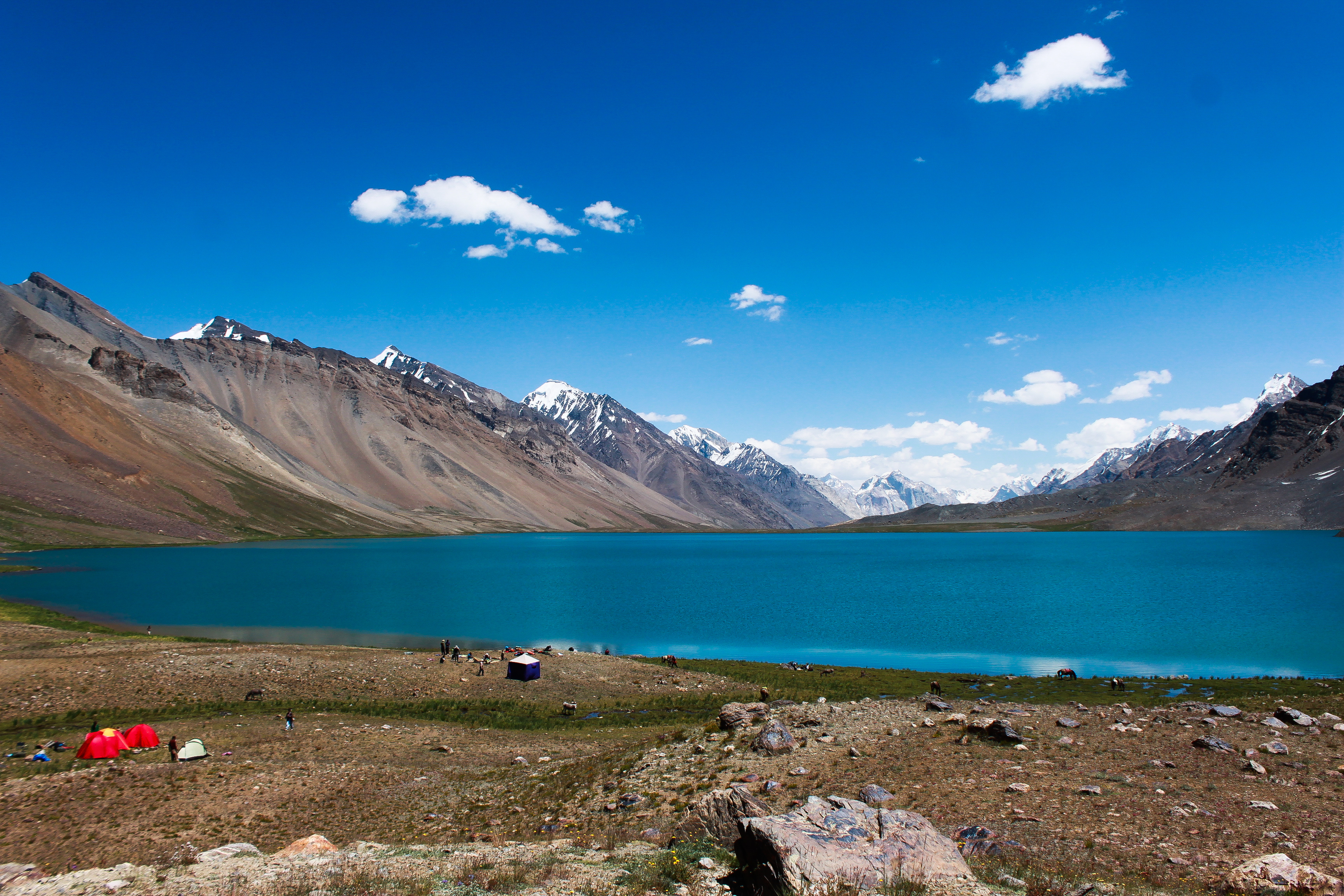 It is the 31st highest lake in the world and 2nd highest in Pakistan at a height of 14,121 feet (4,304 m) and one of the highest biologically active lakes on earth.